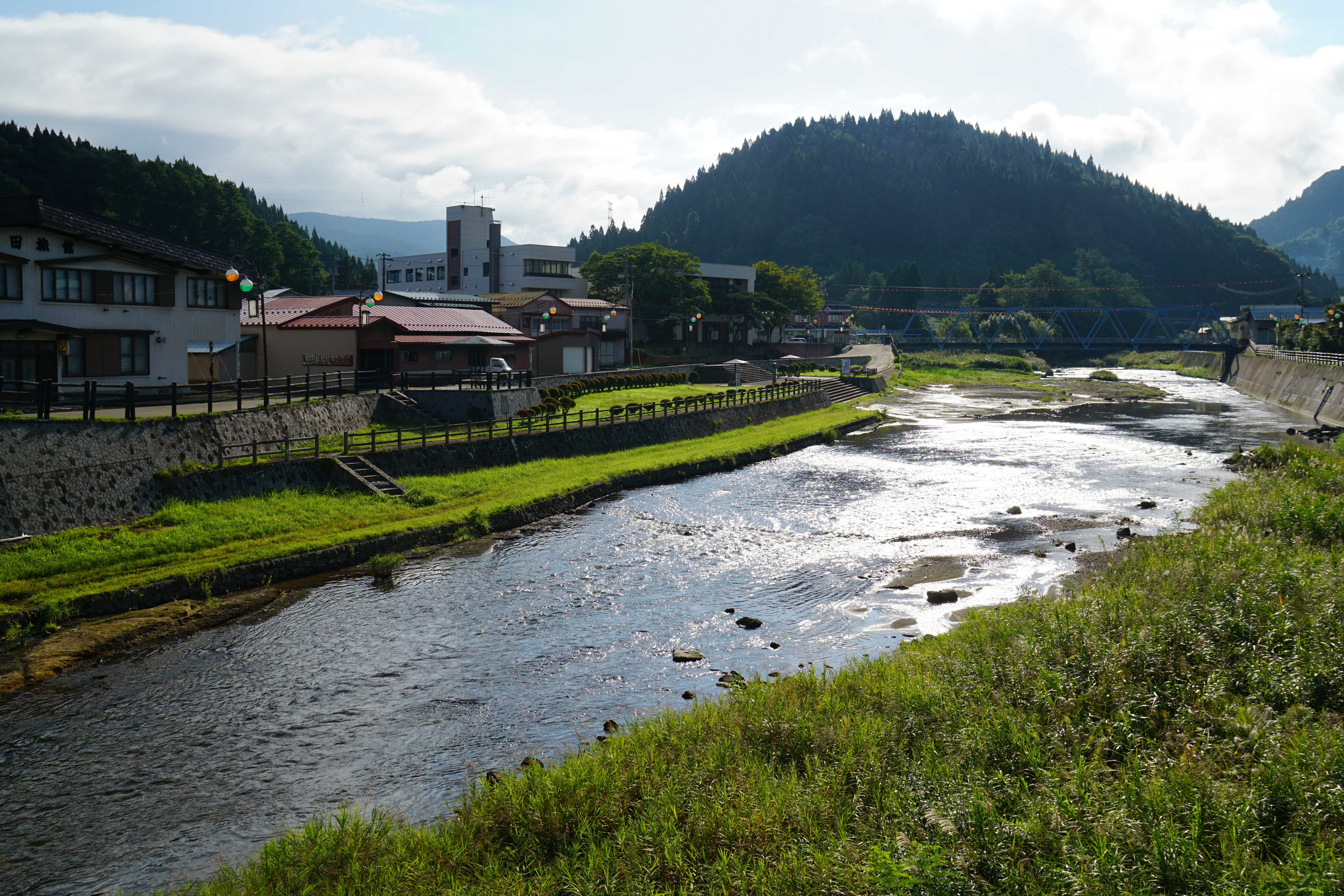 At Ikarigaseki_Onsen in Hirakawa, Aomori prefecture, Japan.